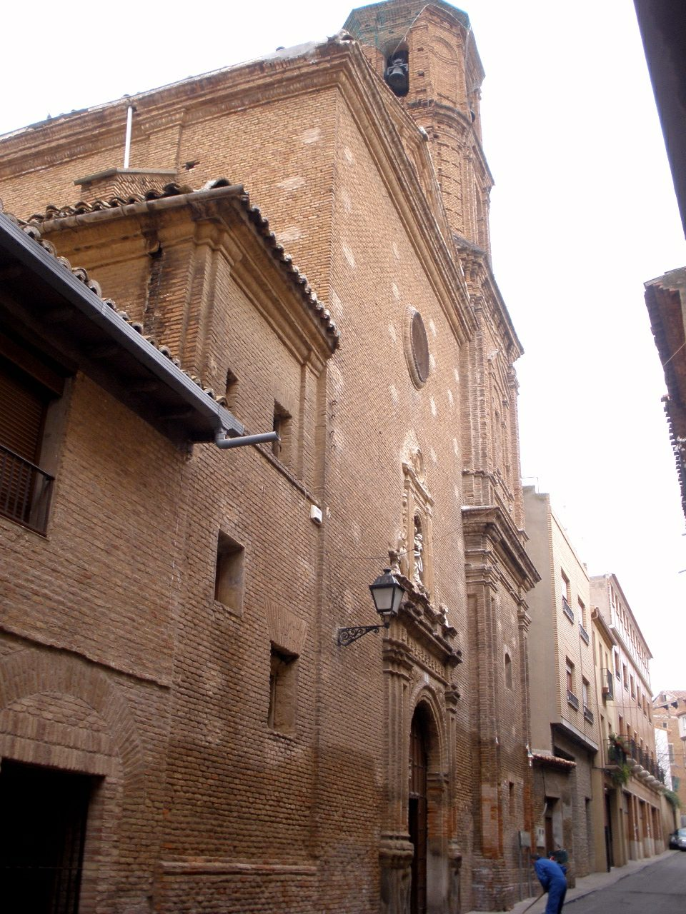 Iglesia de N. S. del Burgo, en Alfaro (La Rioja, España)